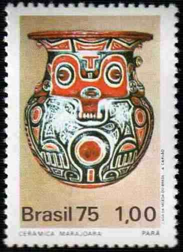 Arqueologia.Ceramics.Brazil